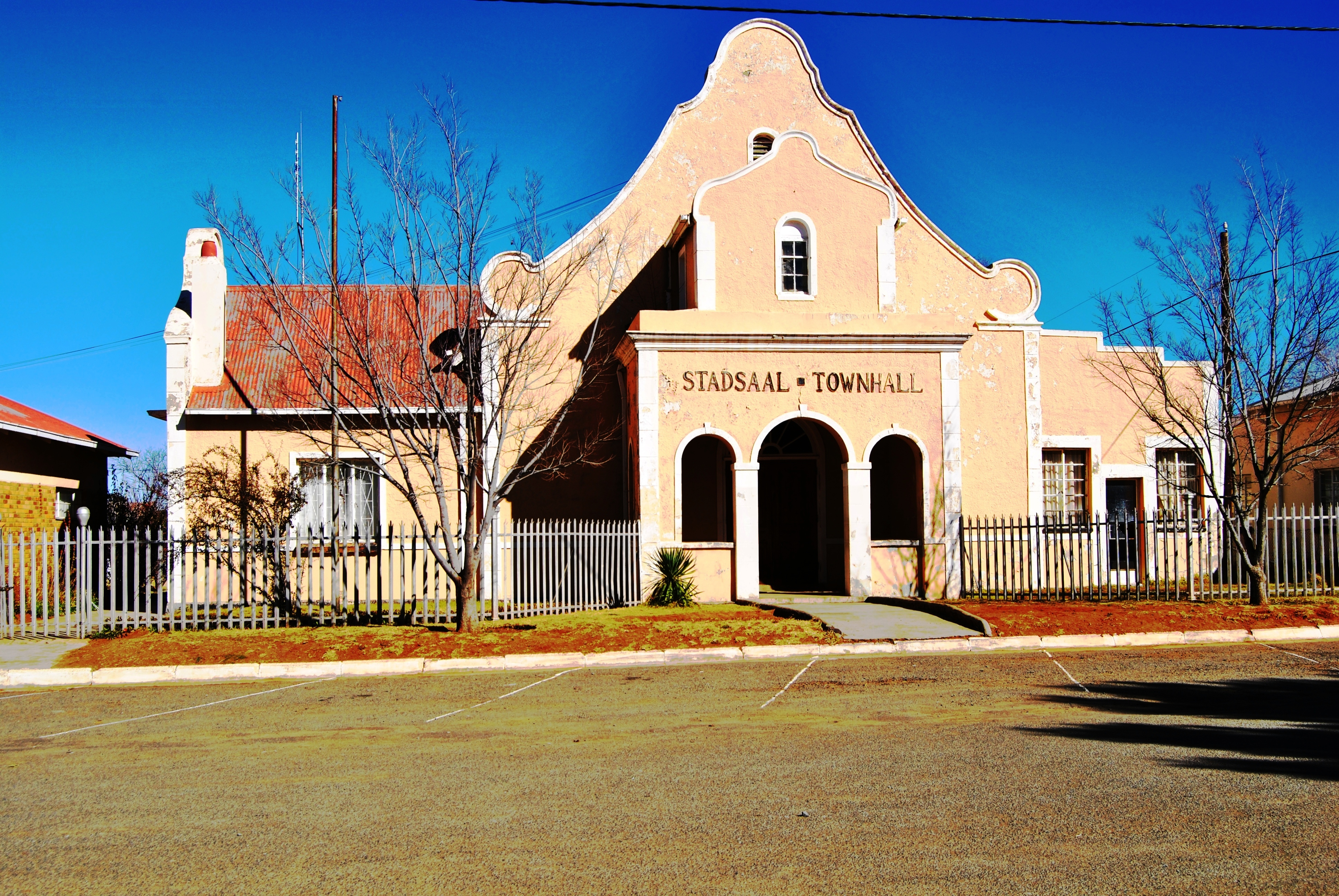 This is the Town Hall in Edenburg. This media shows a South African Protected Site with SAHRA file reference 9/2/310/0007.